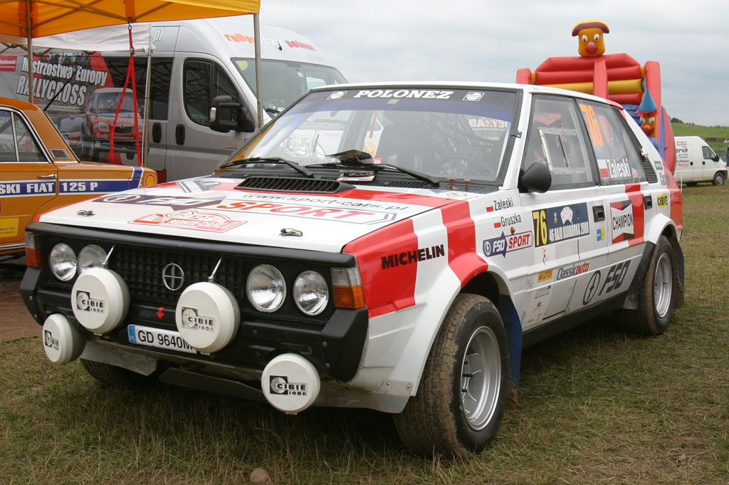 Historic Polonez 2000 group 2 rallycar on display near service park of 2009 Rajd Polski WRC event